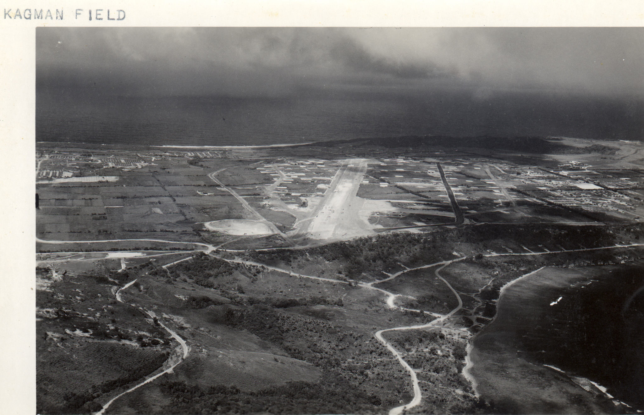 Kagman Field, Saipan, Mariana Islands, 25 April 1945